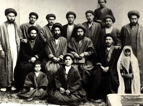 خاندان دستغیب